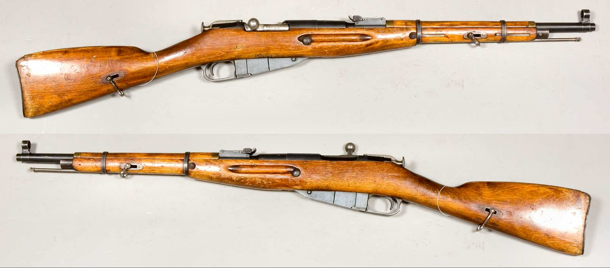 Mosin-Nagant Model 1938 Carbine. Caliber 7.62x54mmR. From the collections of Armémuseum (Swedish Army Museum), Stockholm, Sweden.